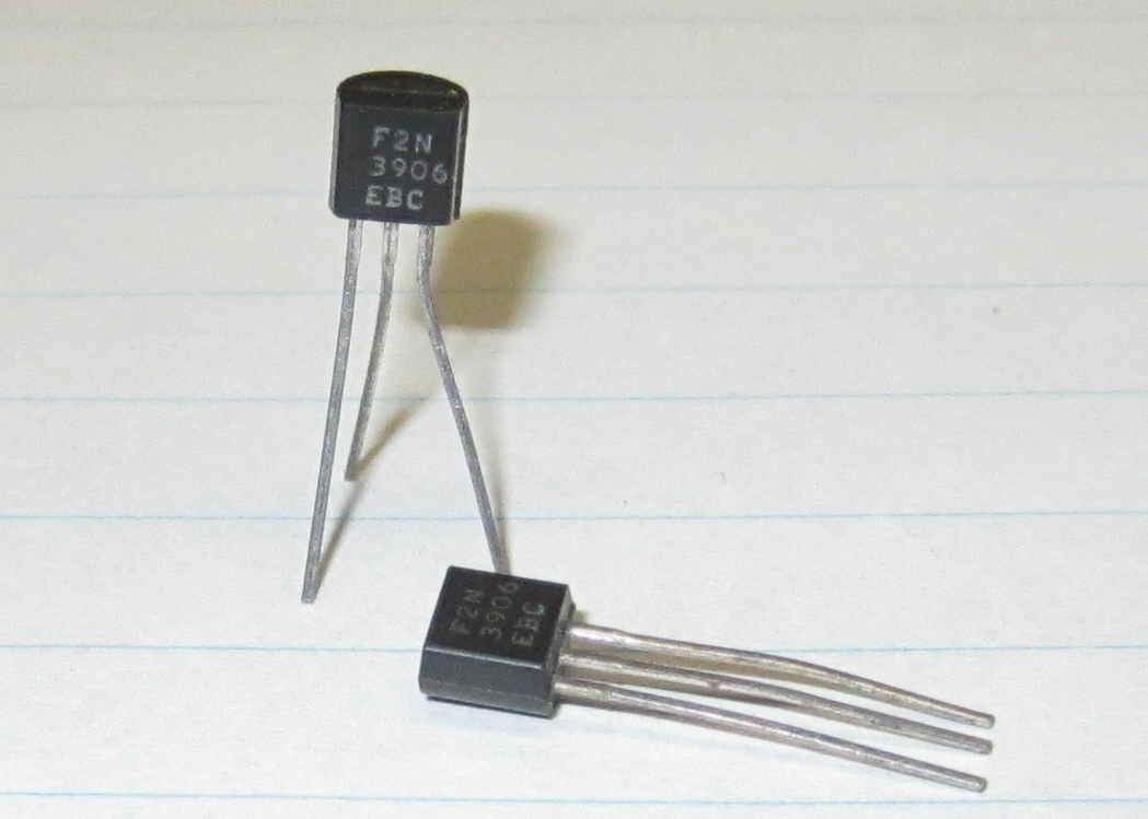 Two 2N3906 transistors in TO 92 plastic packages. These are a low power discrete silicon switching transistor. These devices are so notable, they have their own article on the English Wikipedia. There's no need to recite the epic saga of the 2N3906 here, since that is being capably handled by the Wikipedia itself. Let's merely say instead that without this tiny perfect silicon wonder, Western civilization as we know it today would be poorer. Now there's a second image for the 2N3906 category, so essential to the well-run operations of Wikimedia Commons.